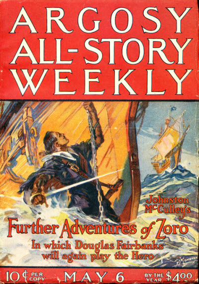 Cover of Argosy All-Story Weekly, May 6, 1922.